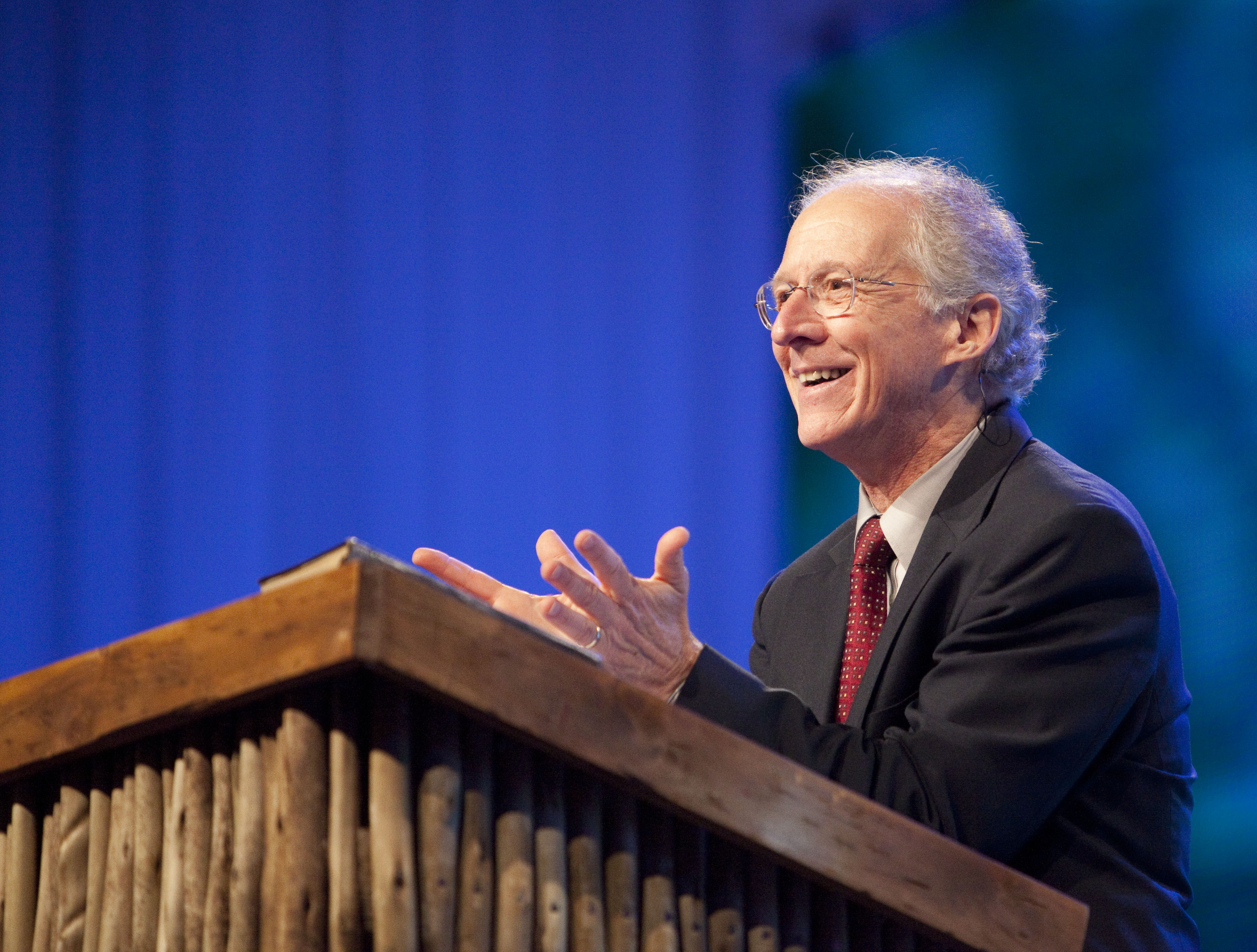 Photo of John Piper, theologian, preaching from a pulpit